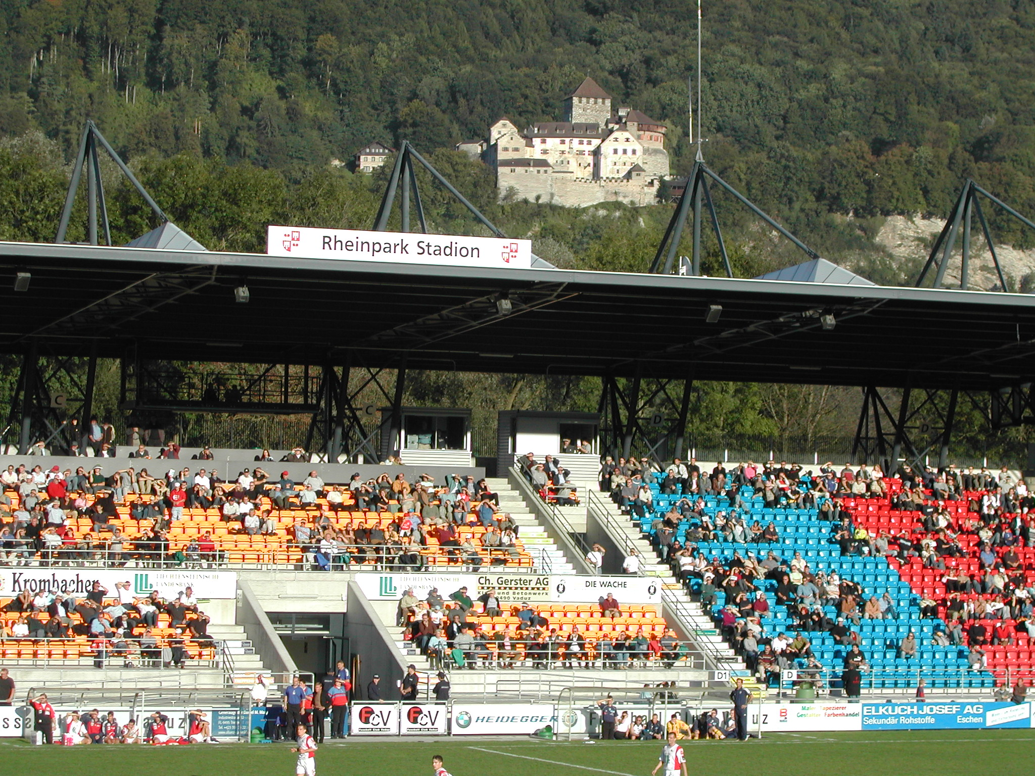 This is the main stand in the Rheinspark-Stadion in Vaduz, Liechtenstein. The Vaduz castle can be seen in the background.